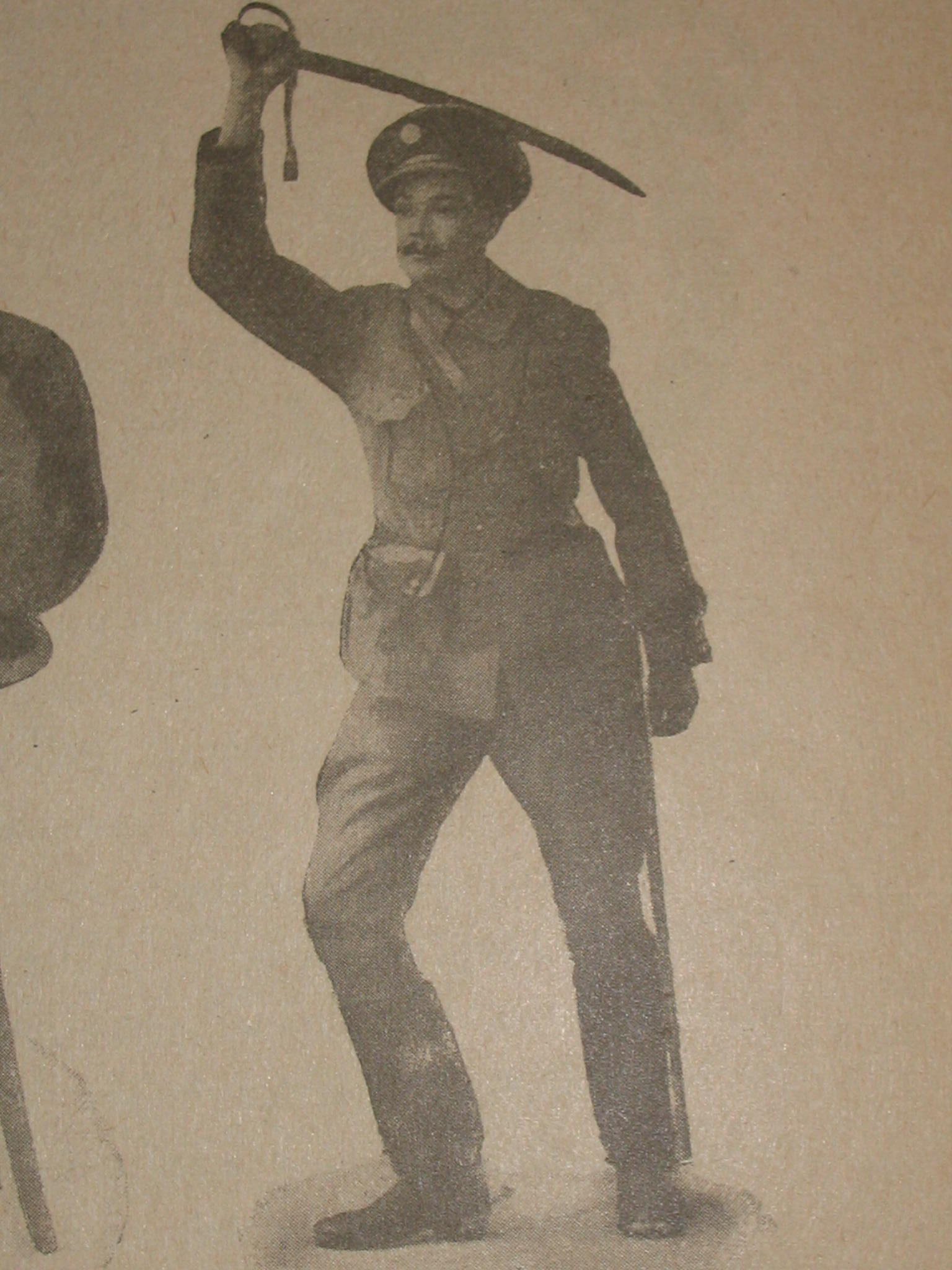 Red guard leader Juho Vuori during the Finnish civil war.